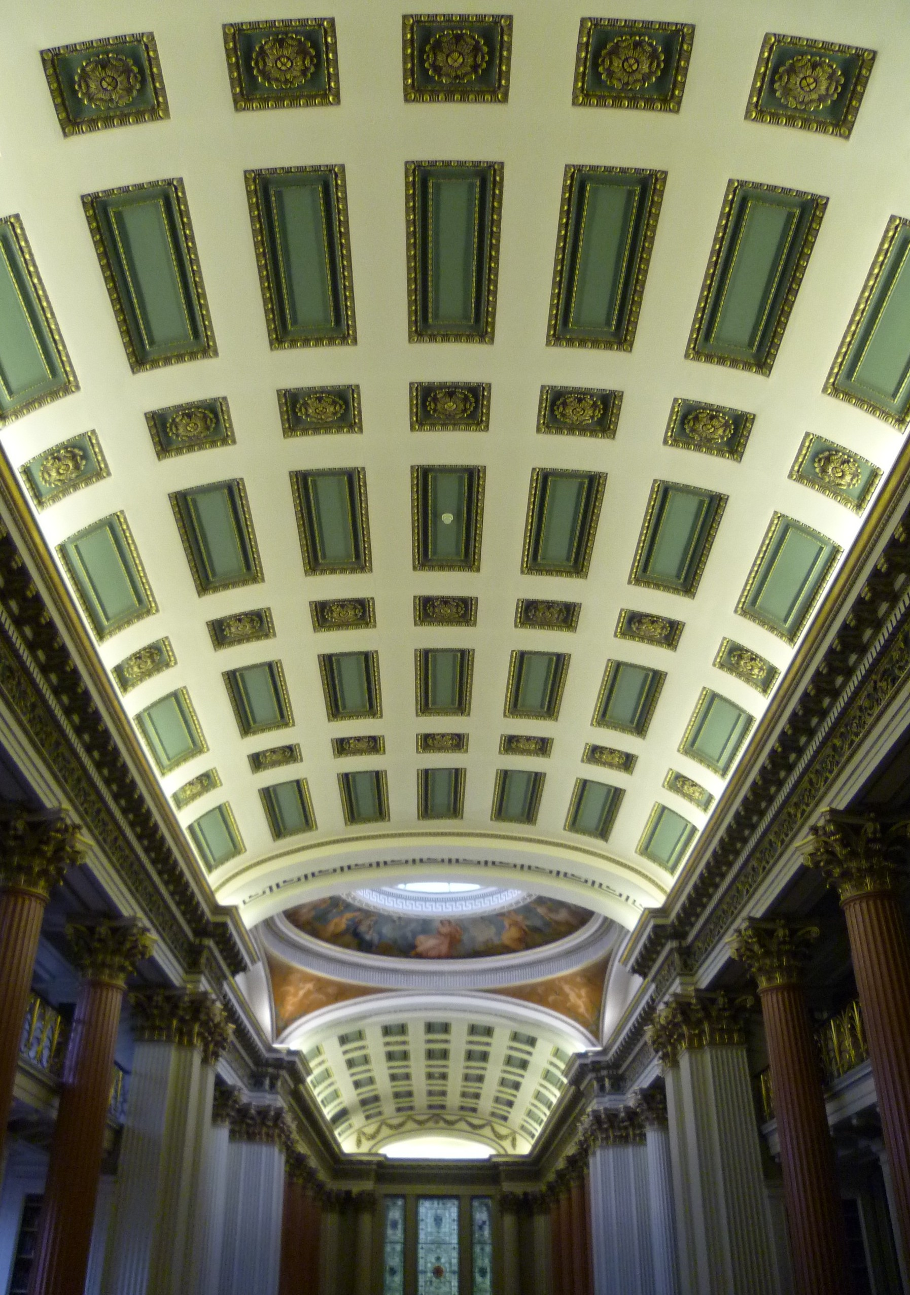 Ceiling of the Upper Signet Library by Robert Reid